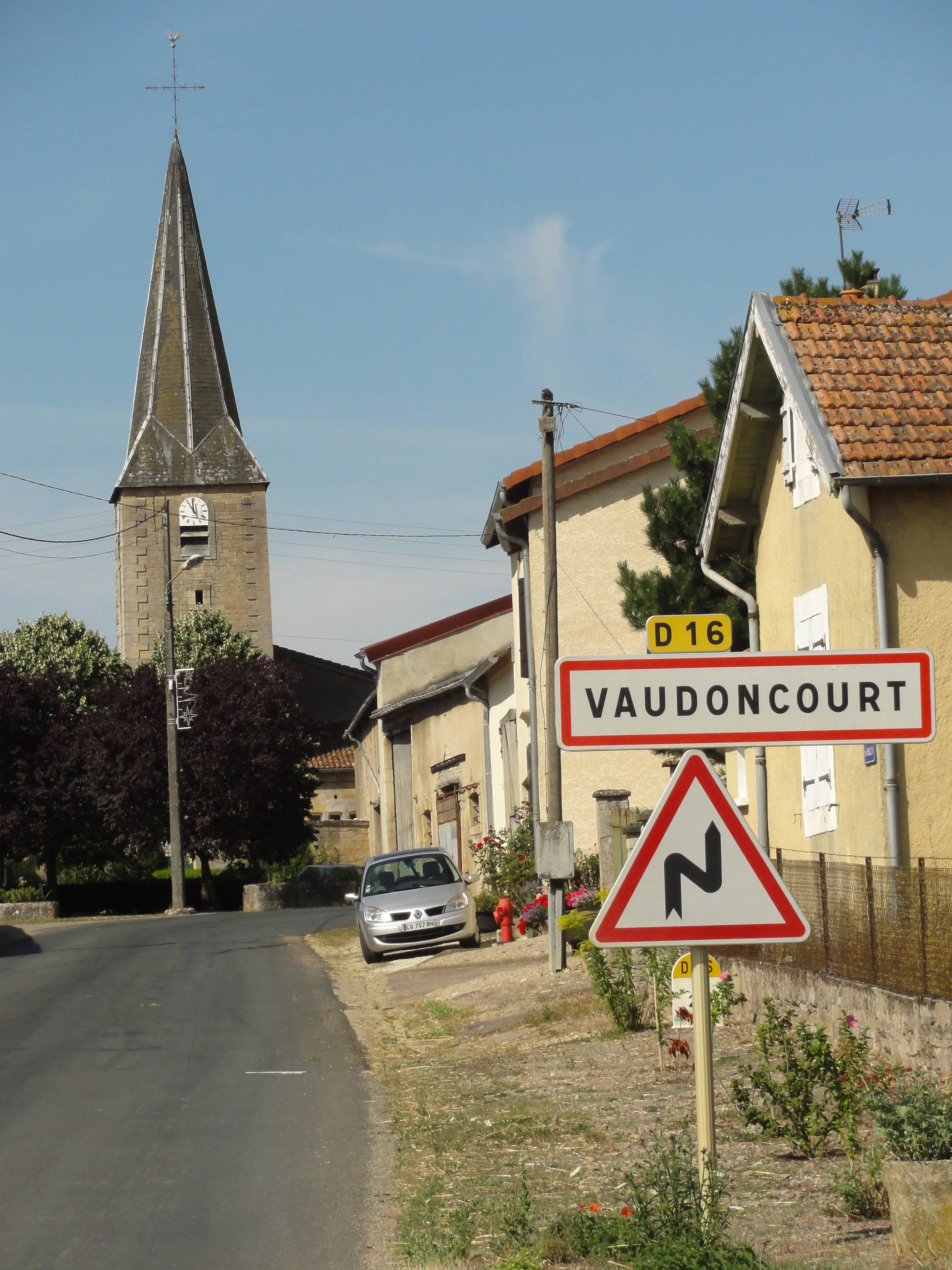 Vaudoncourt (Meuse) city limit sign